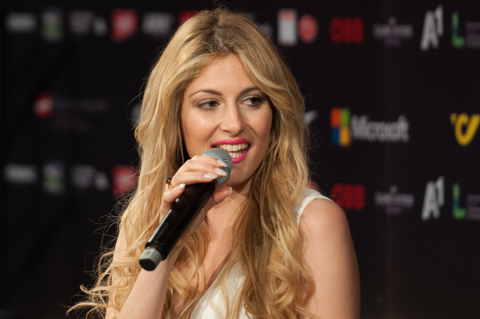 Eurovision Song Contest Vienna 2015: Maria Elena Kyriakou